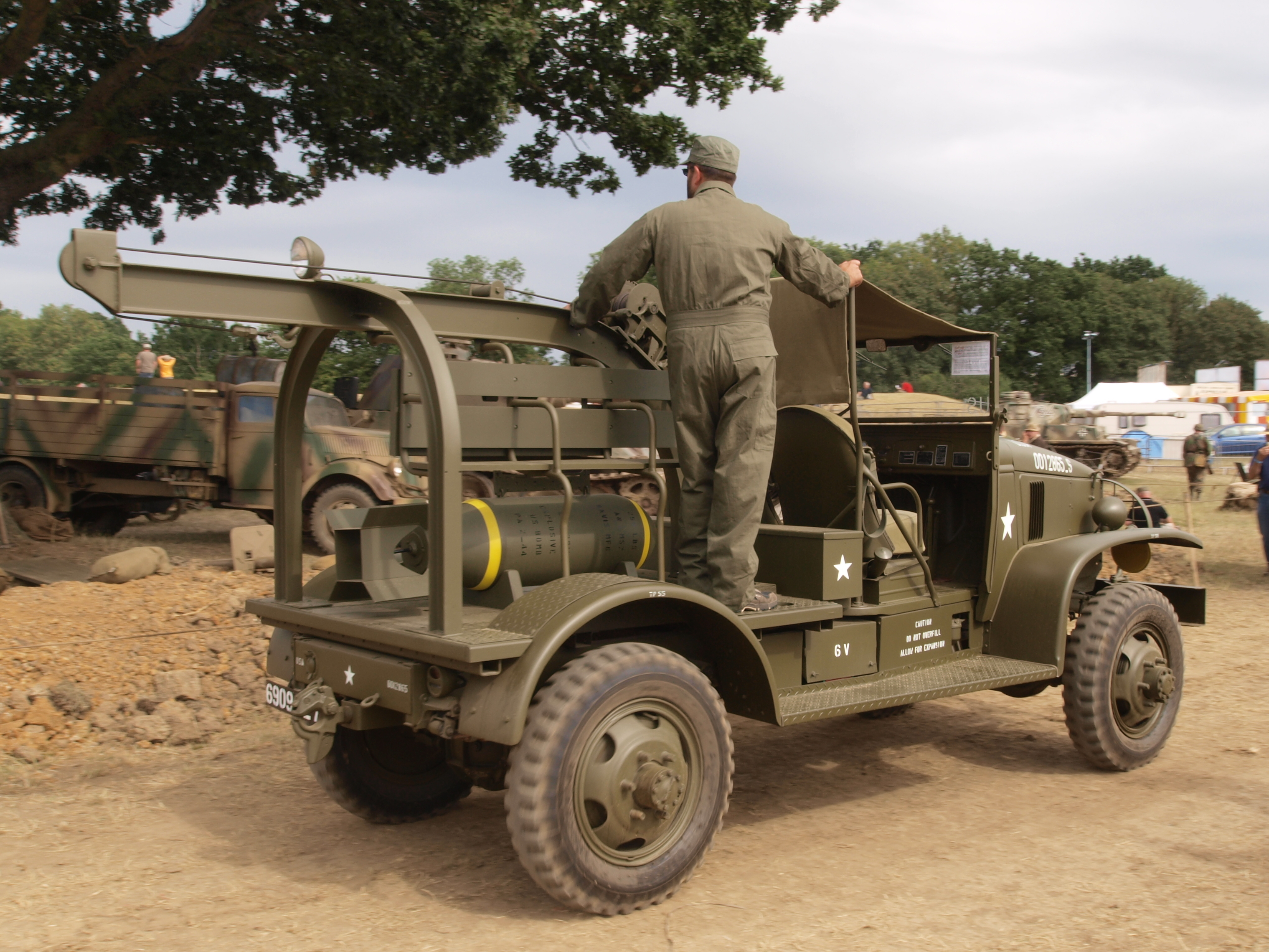 Chevrolet M6 Bomb Carrier (1943) (owner Yohann Legros)